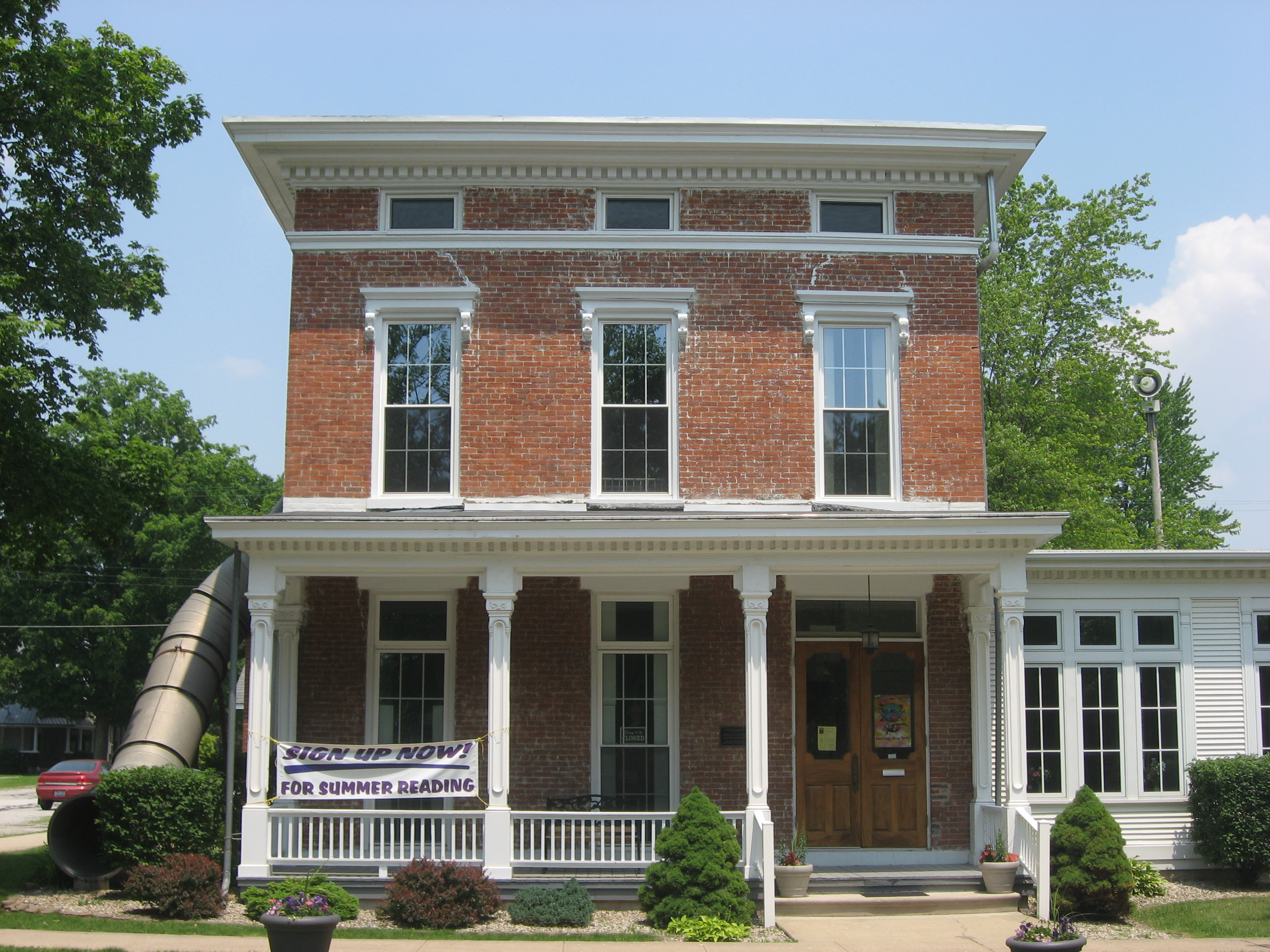 Front of the Andrew Thomas House, located at 183 W. Main Street (State Road 218) in Camden, Indiana, United States. Built in 1869 and since converted into the local library, it is listed on the National Register of Historic Places.